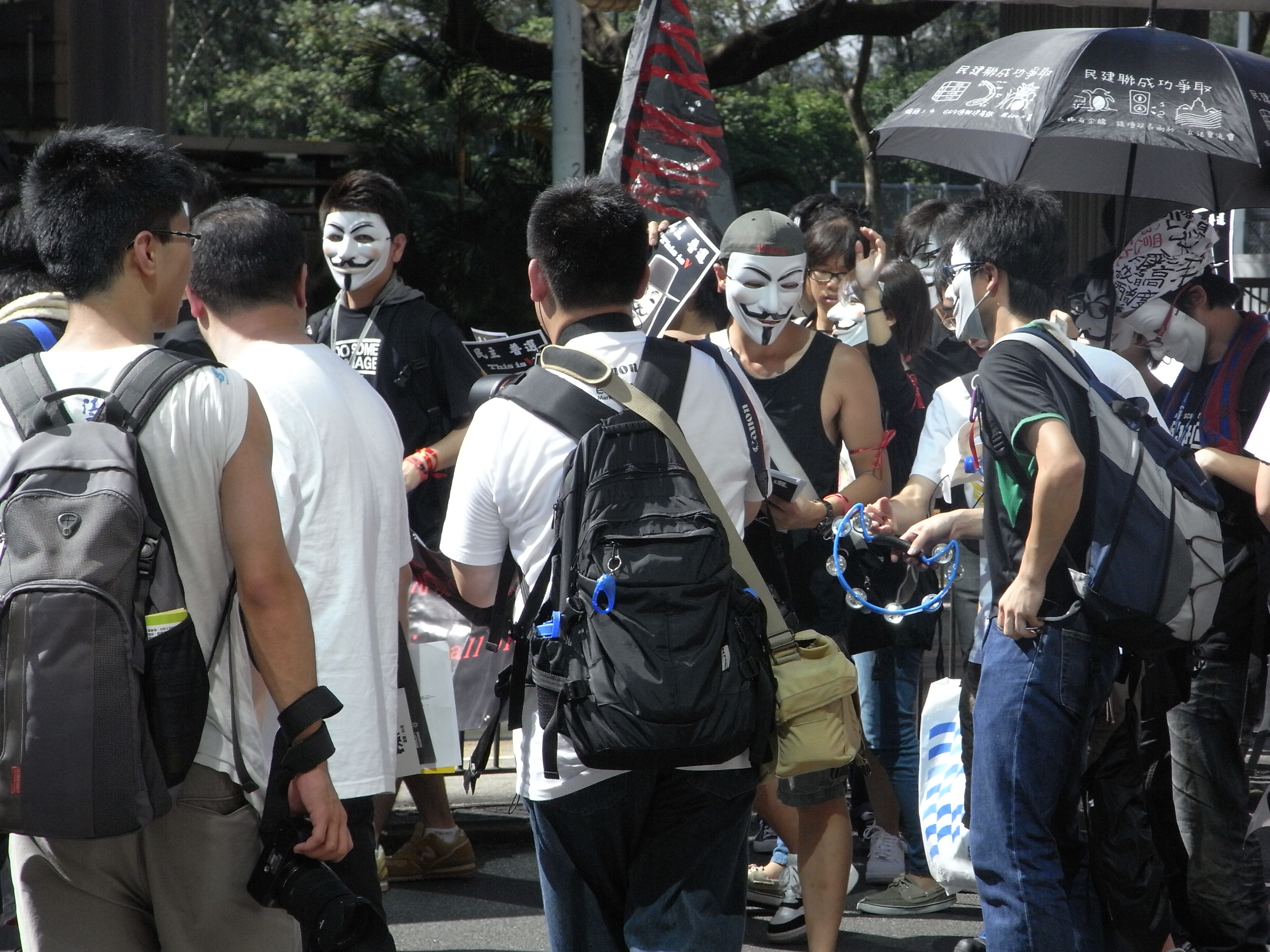 Hong Kong 1 July marches